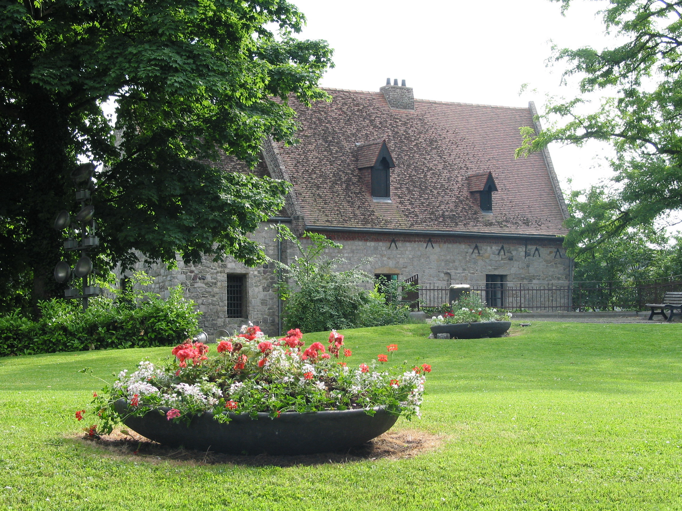 Mons (Belgium), the gardens of the old castle and the romanesque St.Calixte chapel.